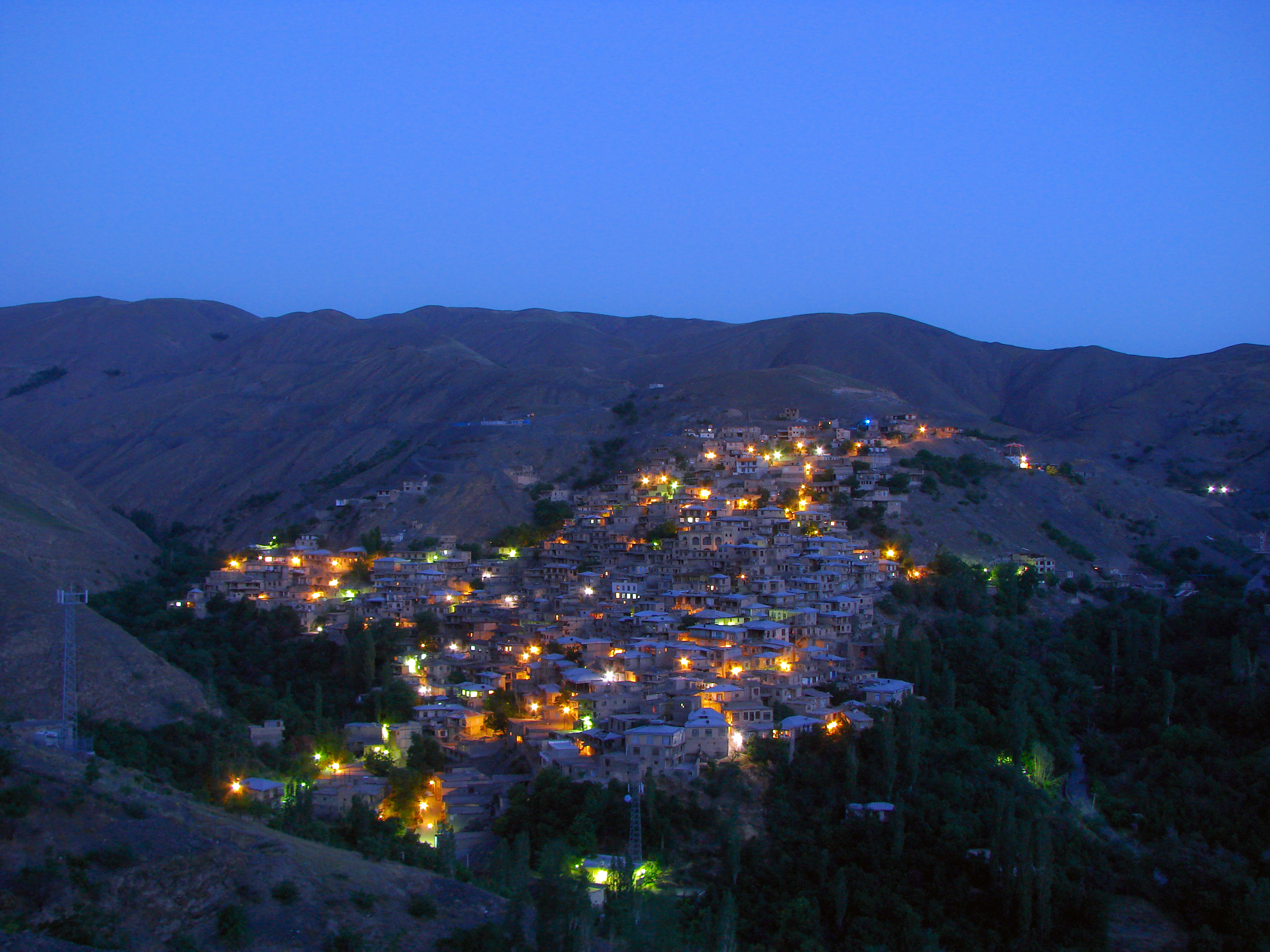 Kang is a village in Jagharq Rural District, Torqabeh District, Torqabeh and Shandiz County, Razavi Khorasan Province, Iran. At the 2006 census, its population was 1,472, in 354 families.